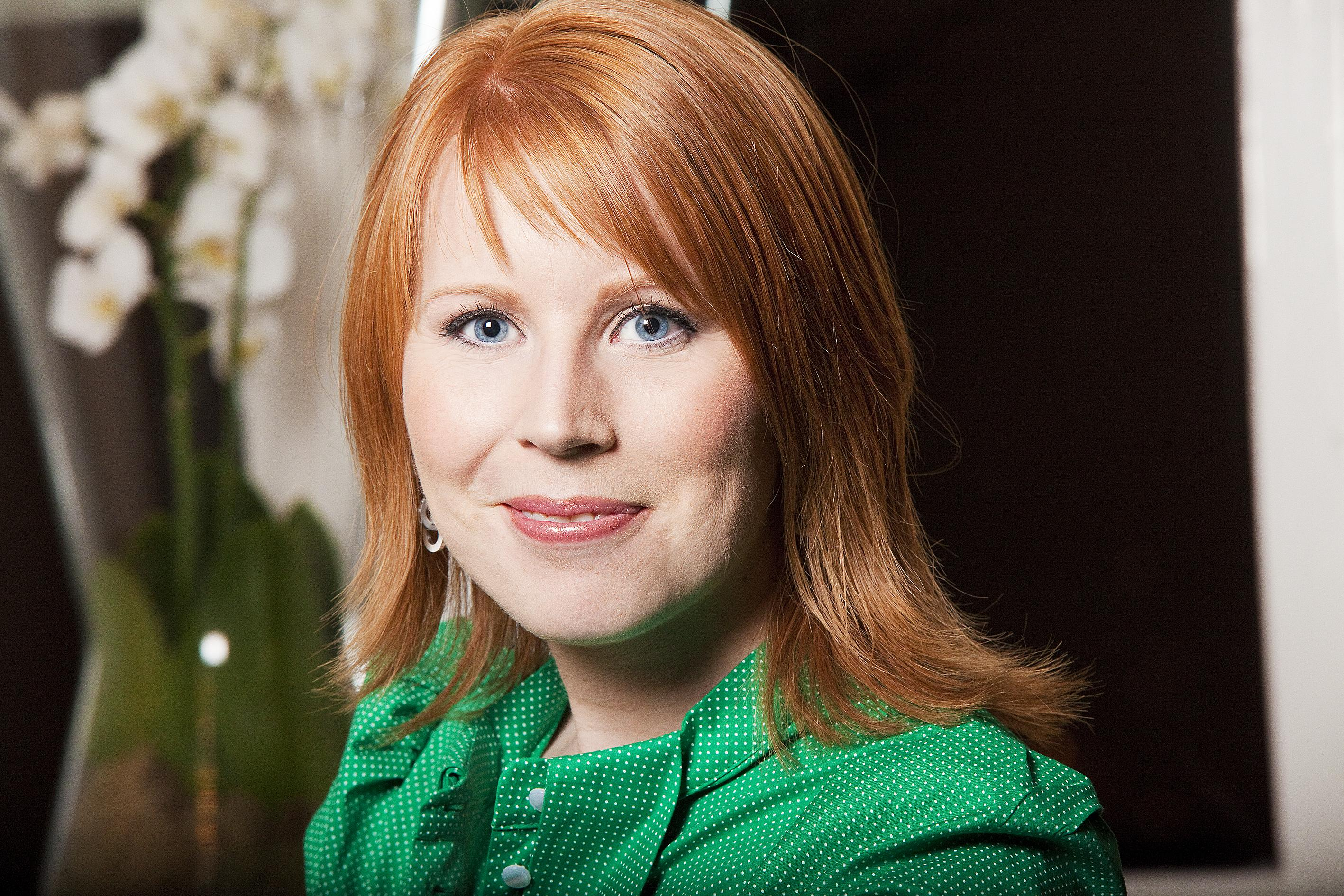 Annie Lööf, Swedish politician